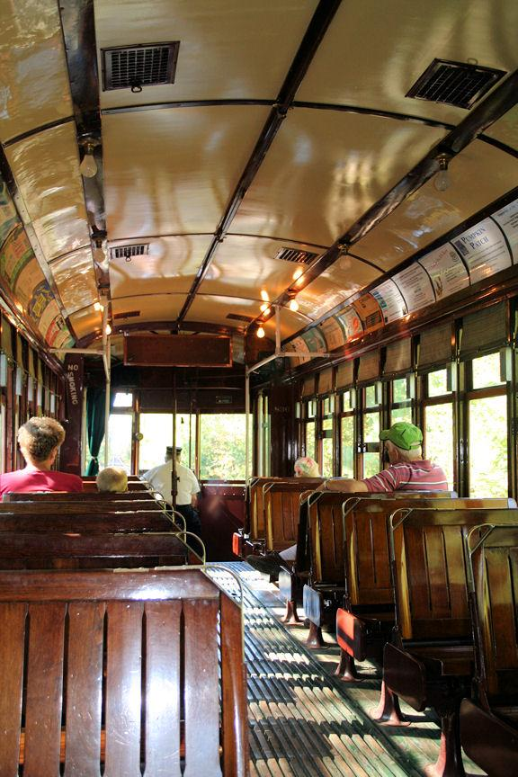 The Connecticut Electric Railway Association, Inc. is the owner and operator of The Connecticut Trolley Museum. Founded in October 1940, it is USA's oldest incorporated organization dedicated to the preservation of the trolley era. With open-air and enclosed trolleys, visitors can also enjoy a three mile round trip streetcar ride.